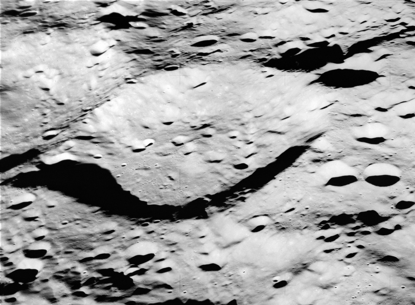 Oblique view of Pirquet, on the far side of the moon, while it was near the evening terminator. Facing east.